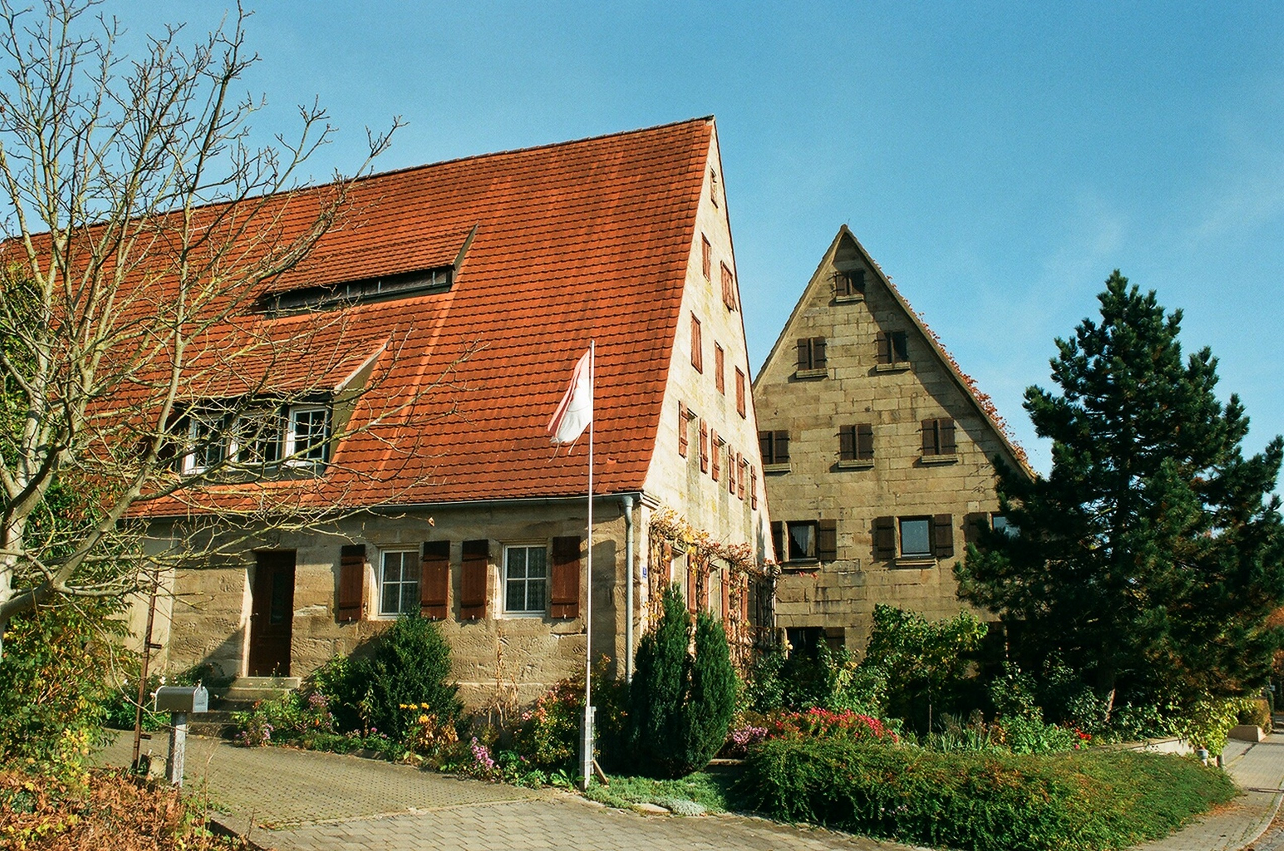 Absberg, houses 15 Ritter-Konrad-Straße